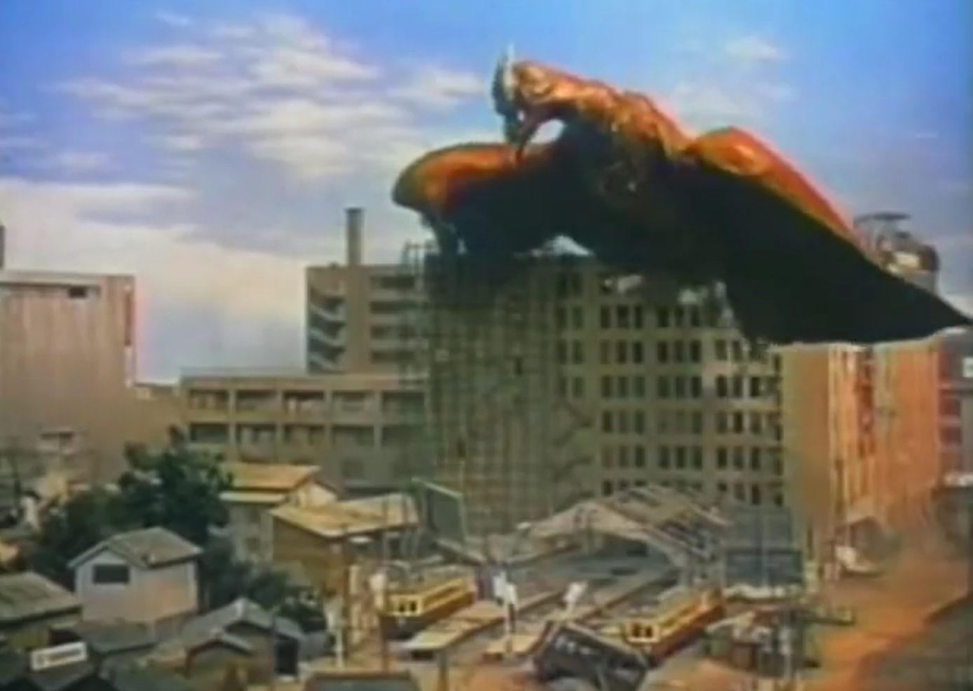 Scene from Rodan.